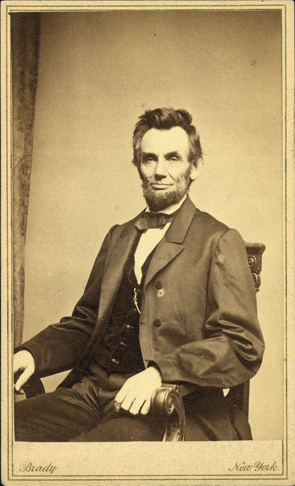 Brady National Photographic Art Gallery (Washington, D.C.), photographer.Abraham Lincoln, U.S. President. Seated portrait, facing front, January 8, 1864